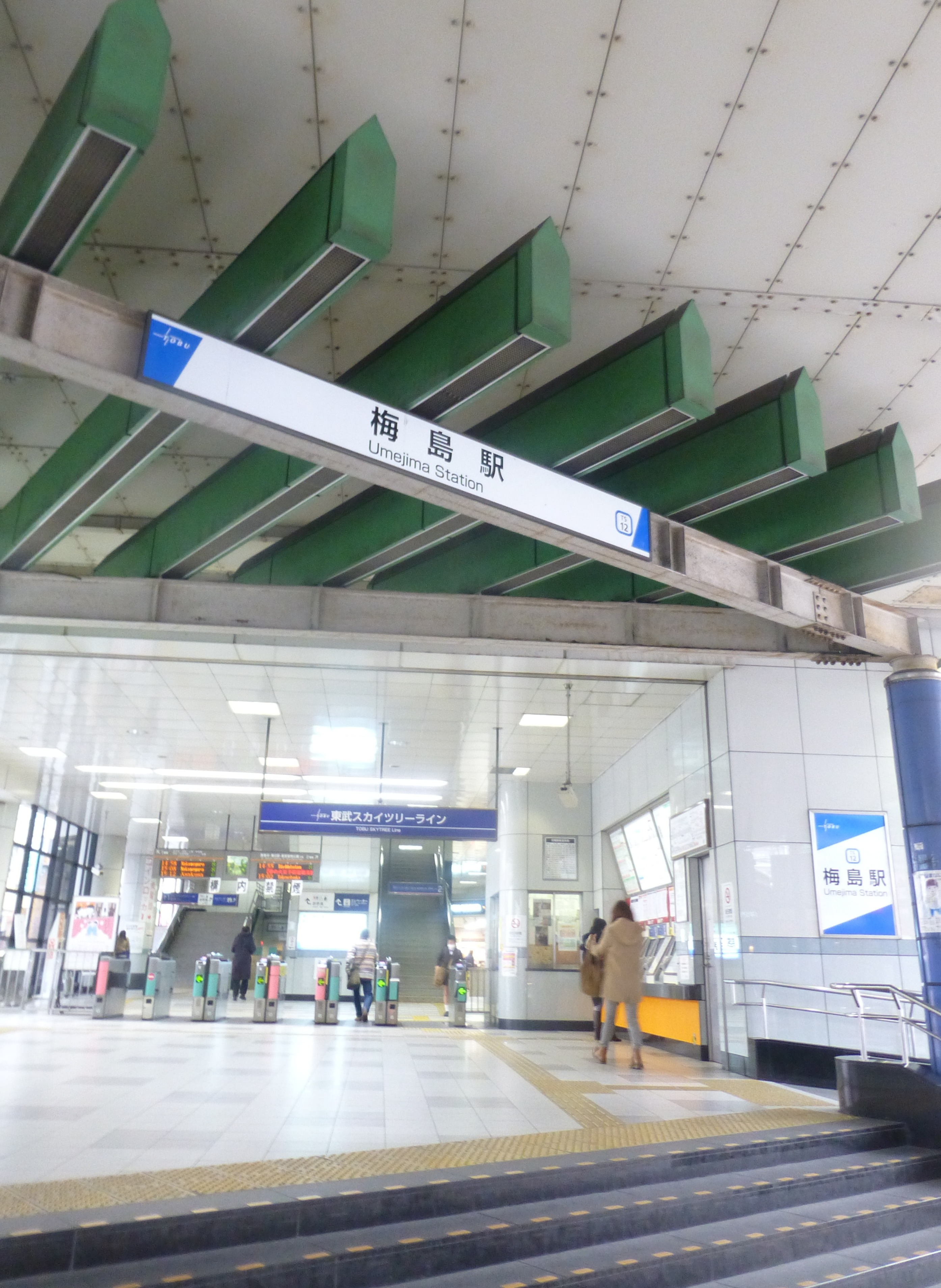 Umejima Station (梅島駅 Umejima-eki) is a railway station on the Tobu Skytree Line in Adachi, Tokyo, Japan, operated by the private railway operator Tobu Railway.